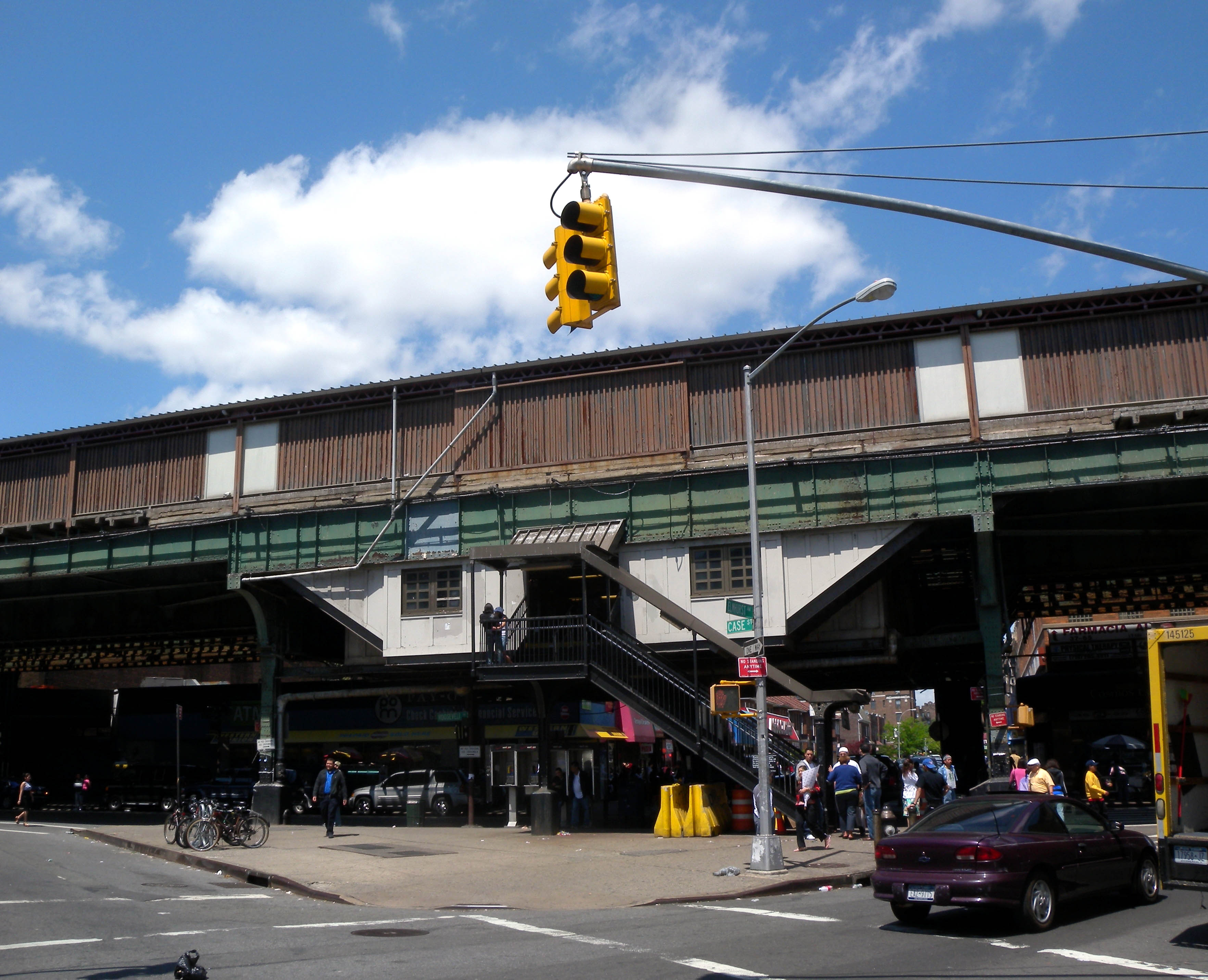 Looking northwest at en:90th Street–Elmhurst Avenue (IRT Flushing Line) on a sunny midday.